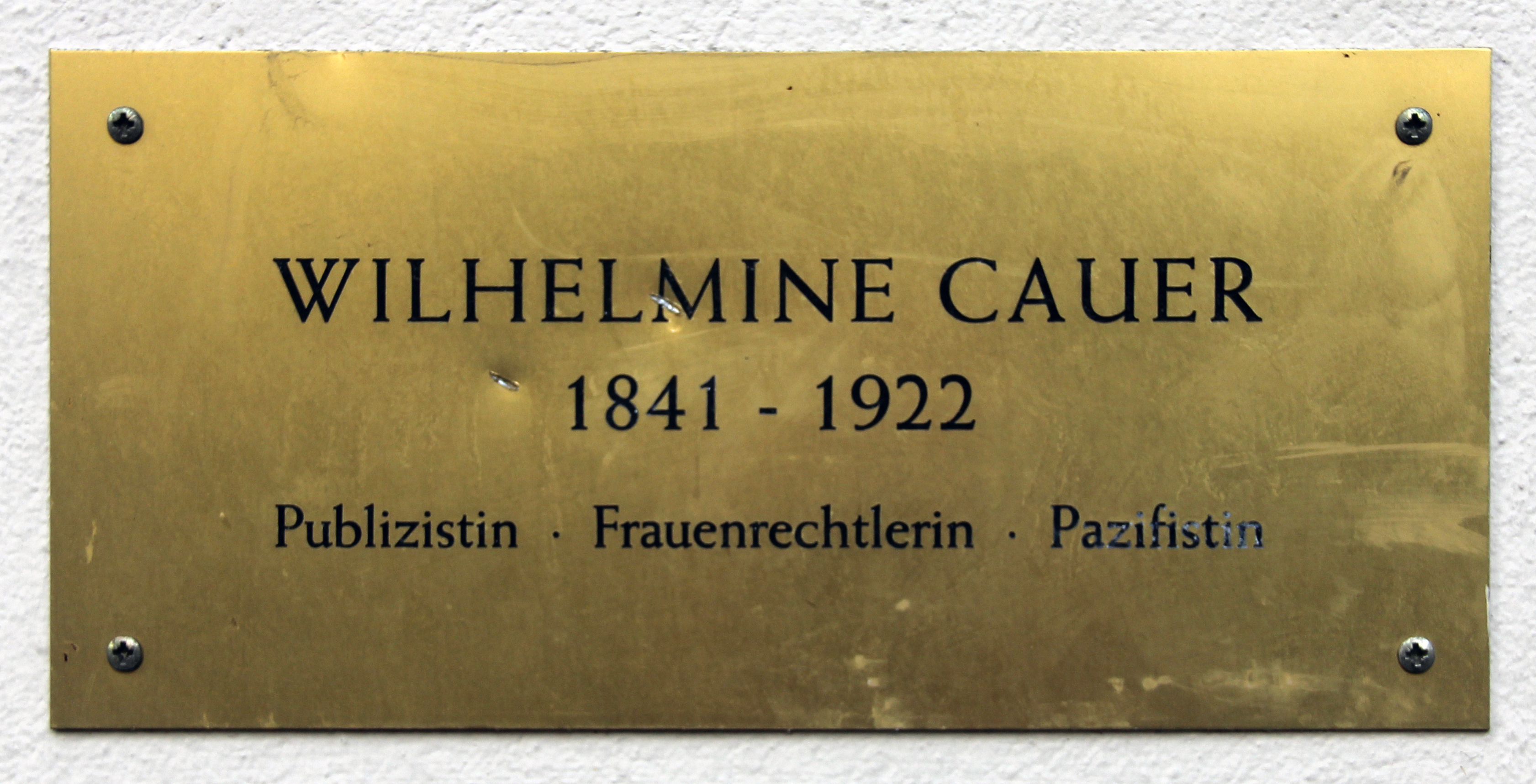 Memorial plaque, Wilhelmine Cauer, Mansteinstraße 8, Berlin-Schöneberg, Germany